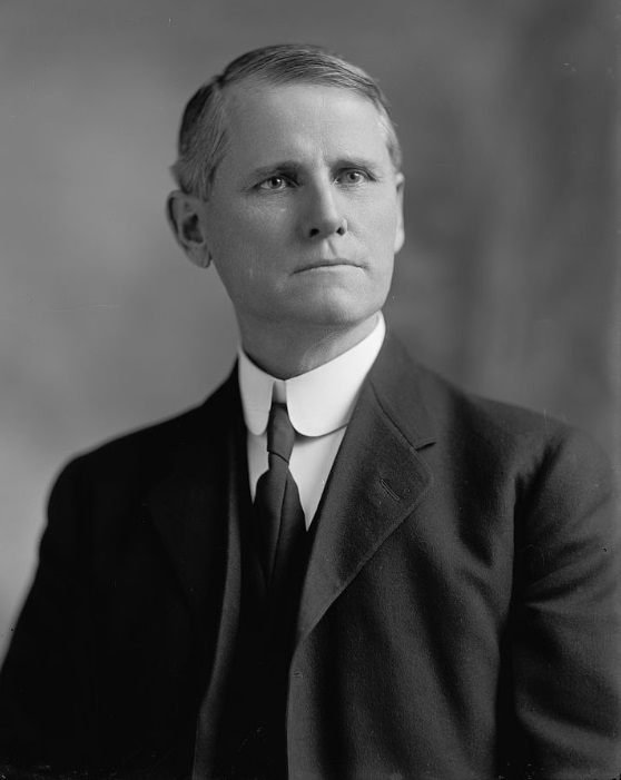 Francis H. Dodds (Michigan Congressman)